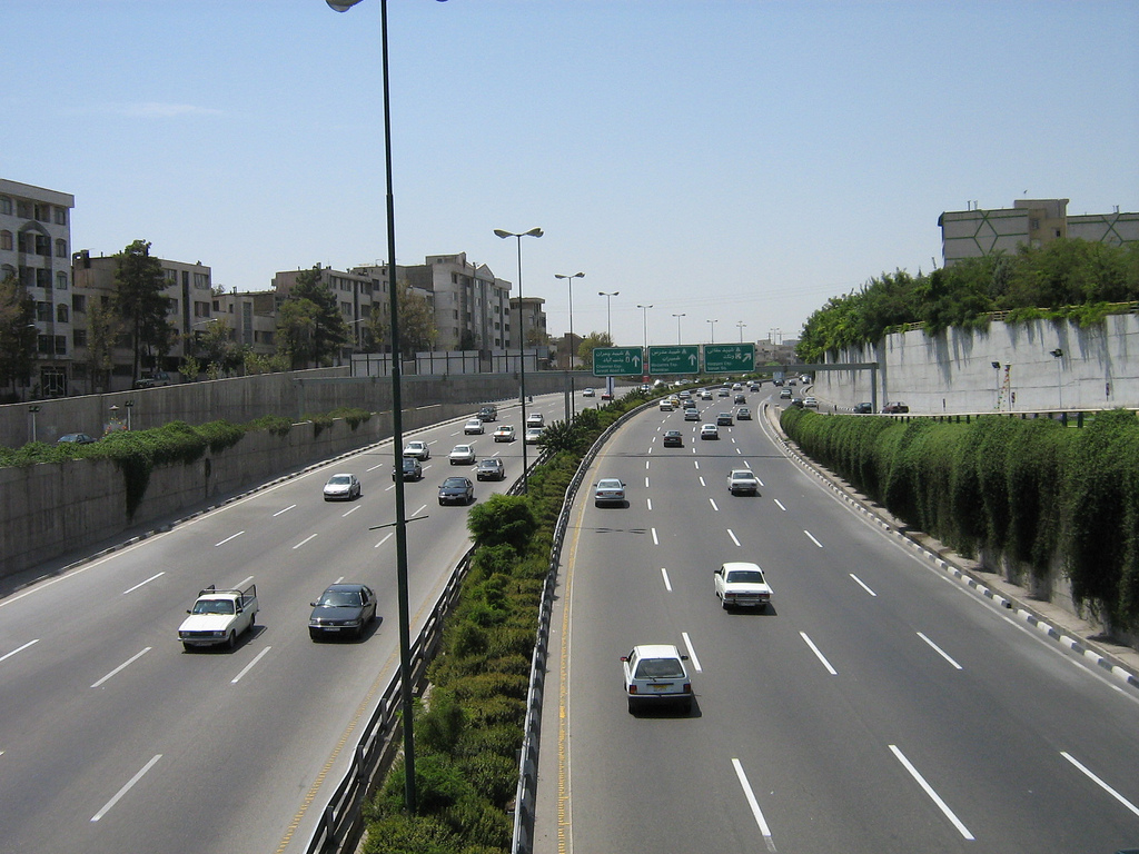 Hemmat expressway